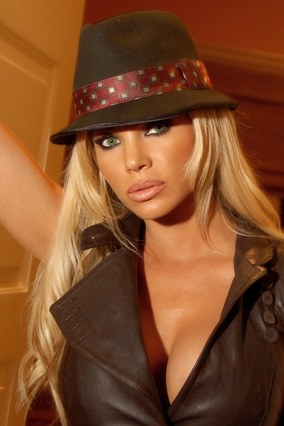 Gabrielle Tuite - Beverly Hills, CA on Sept. 19, 2009 - Photo by Glenn Francis of